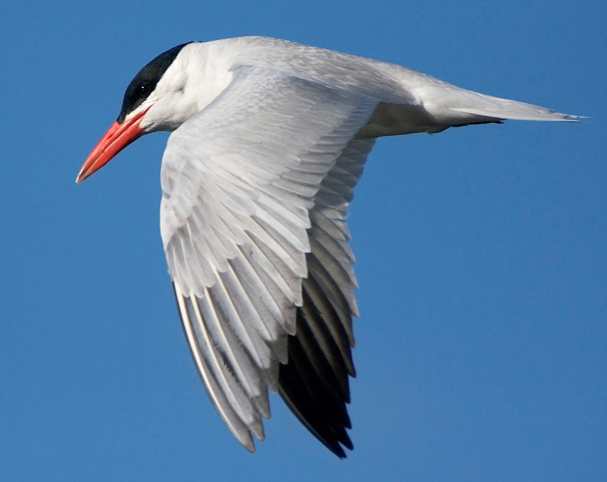 Caspian Tern flying above upper Los Gatos Creek